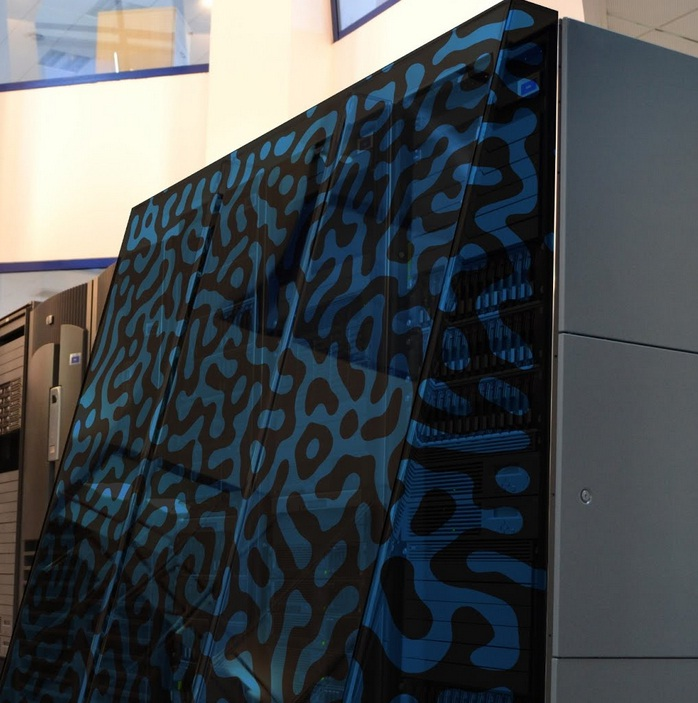 View of Melomics109 computer